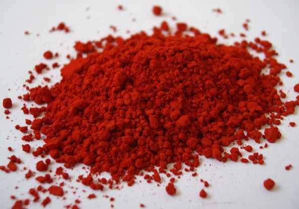 Picture: Solvent yellow 14